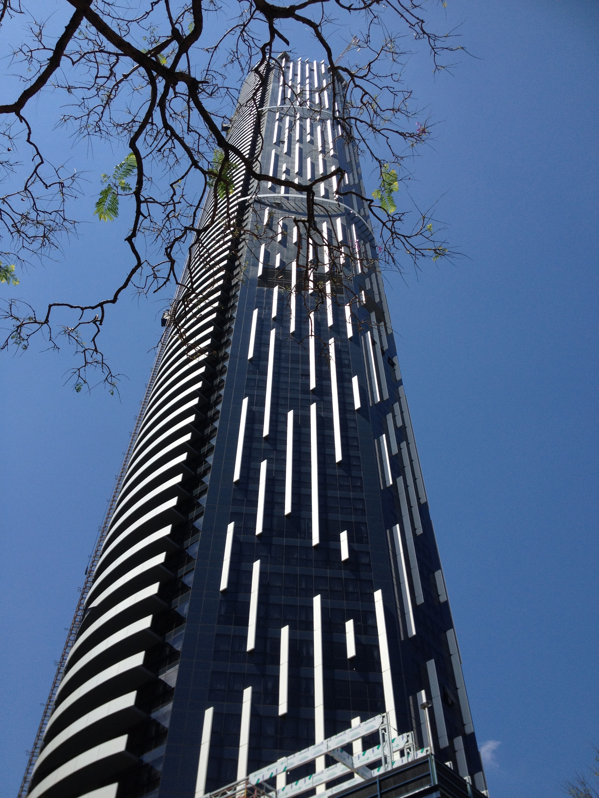 Infinity Tower, Brisbane